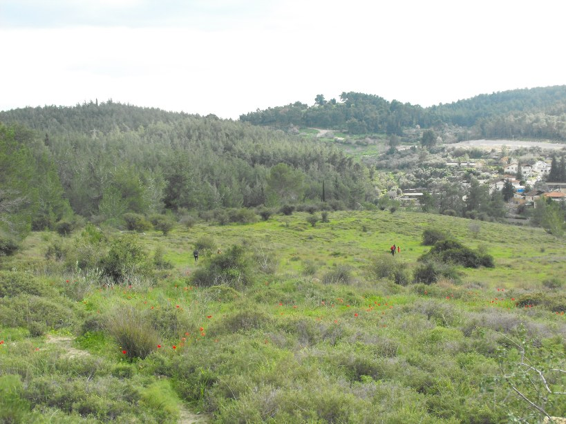 Plants of Israel